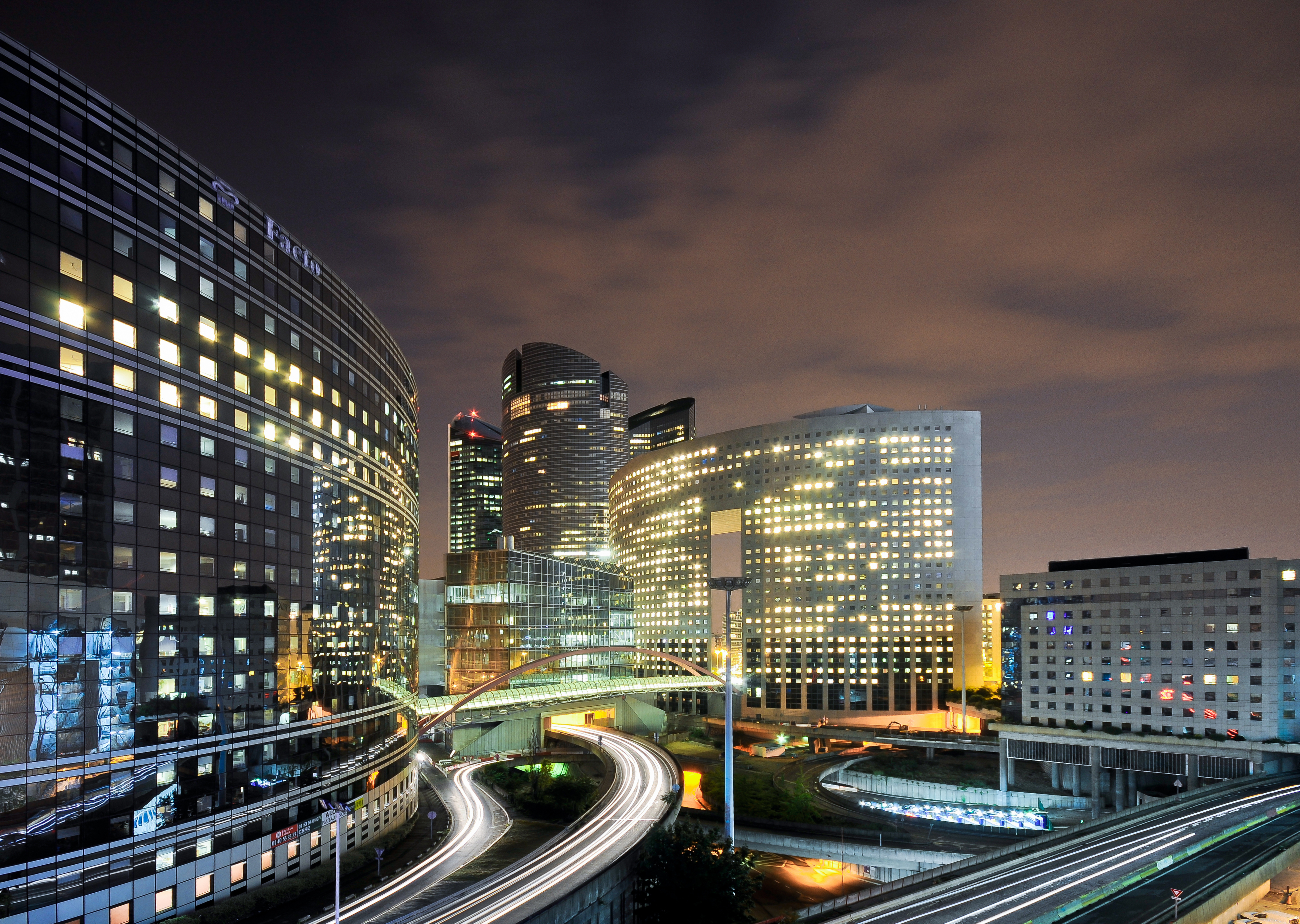 La Défense by night, Paris, France.